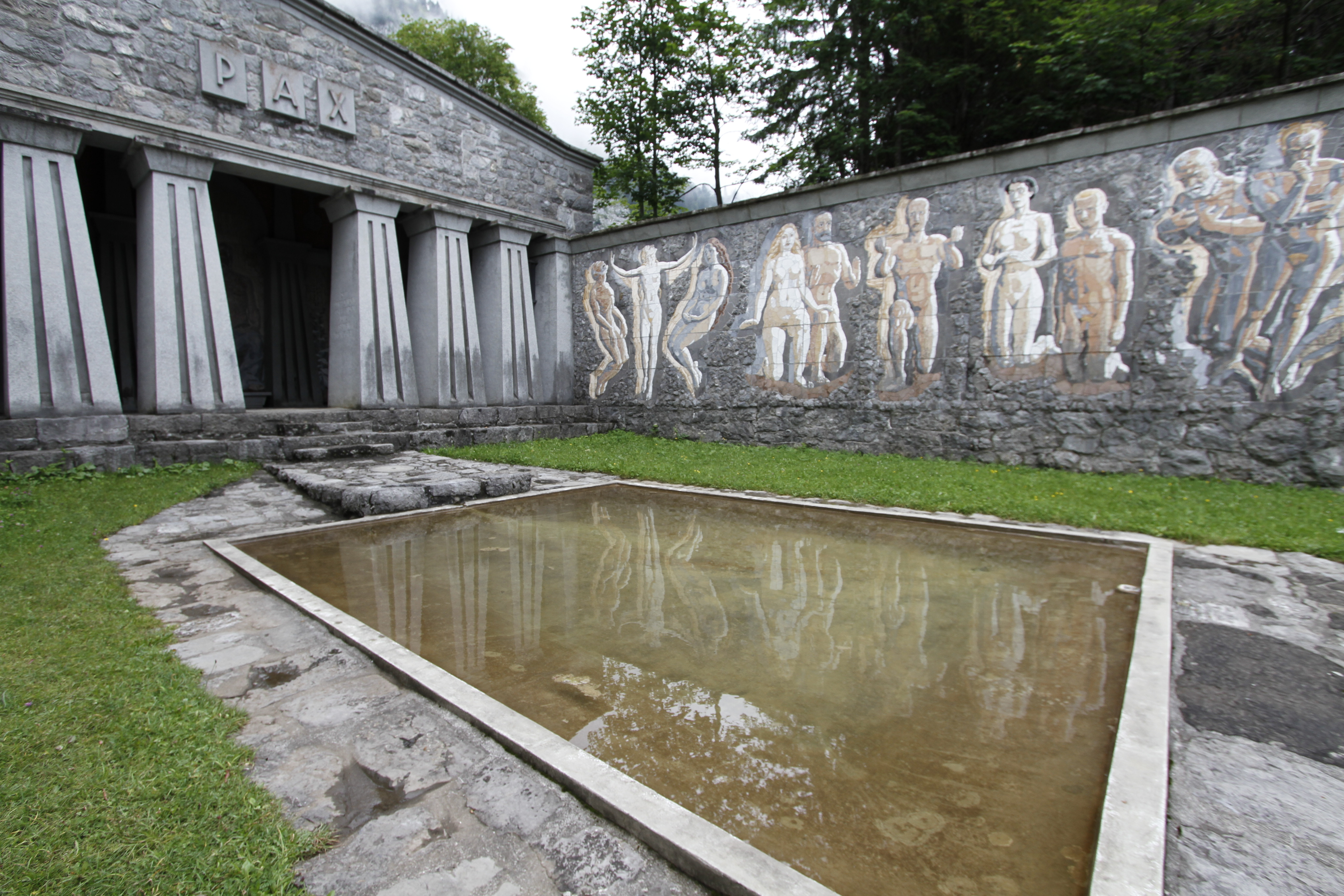 Paxmal in Schrina-Hochrugg (ca 1940)